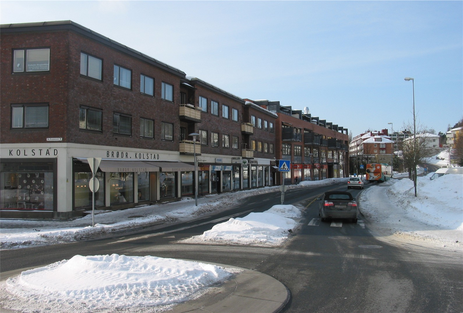 The (small) main street of Stabekk, Norway.